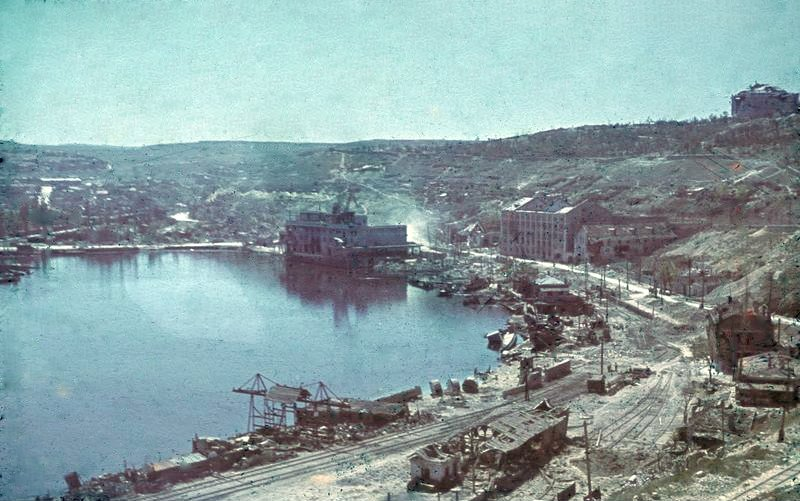 Destroyed harbor of Sevastopol during the siege of the city by axis forces in WW2.